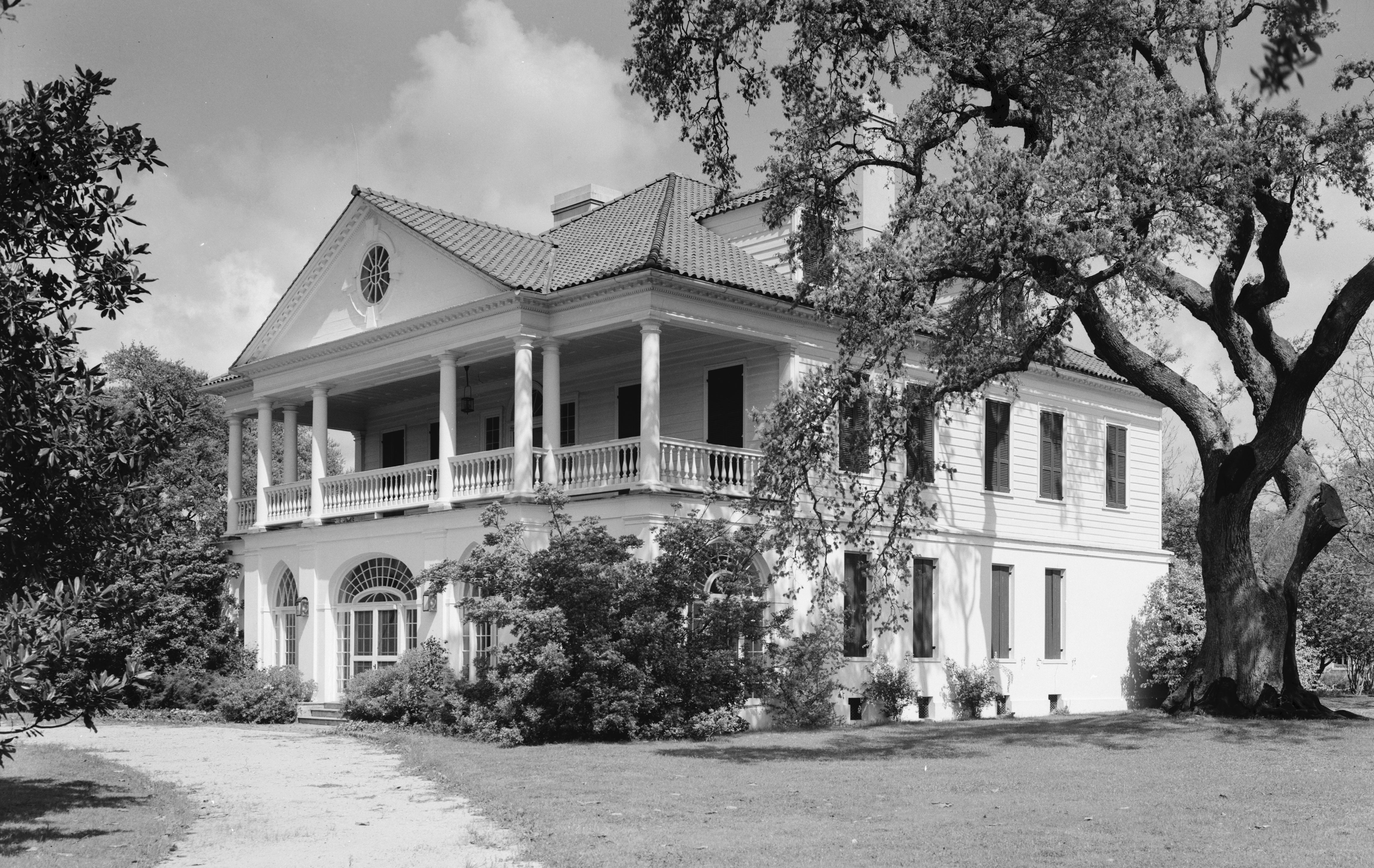 Lowndes Grove (House), Saint Margaret Street & Sixth Avenue, Charleston (Charleston County, South Carolina) (cropped)